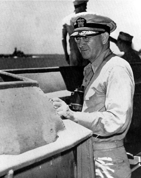 Rear Admiral Willis A. Lee, Jr., USN. Halftone reproduction of a photograph taken on board USS Washington (BB-56), circa 1942-43.